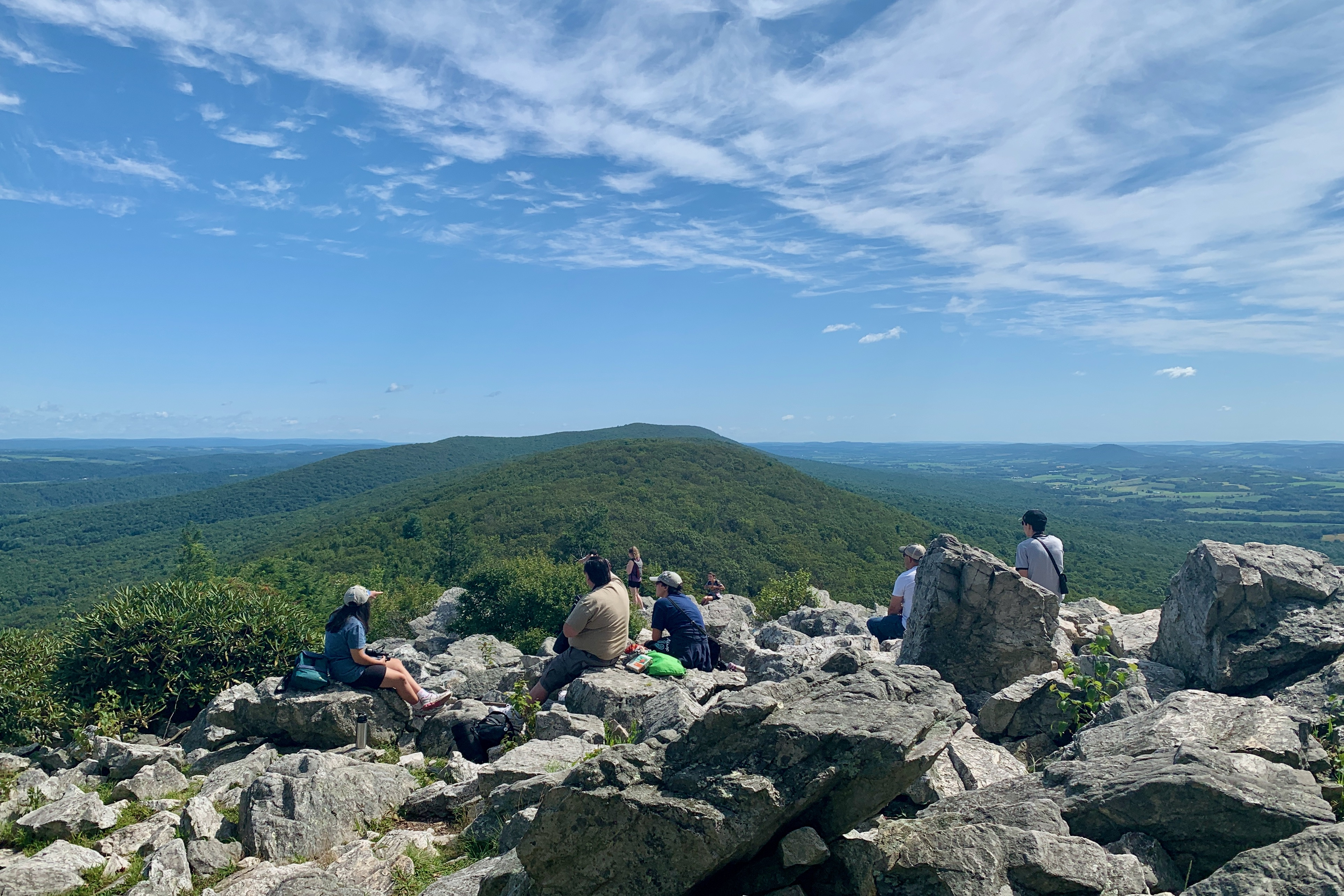 View, looking northeast, of Hawk Mountain and Blue Mountain from the North Lookout at Hawk Mountain Sanctuary in Pennsylvania. Visitors birdwatching during migration season.